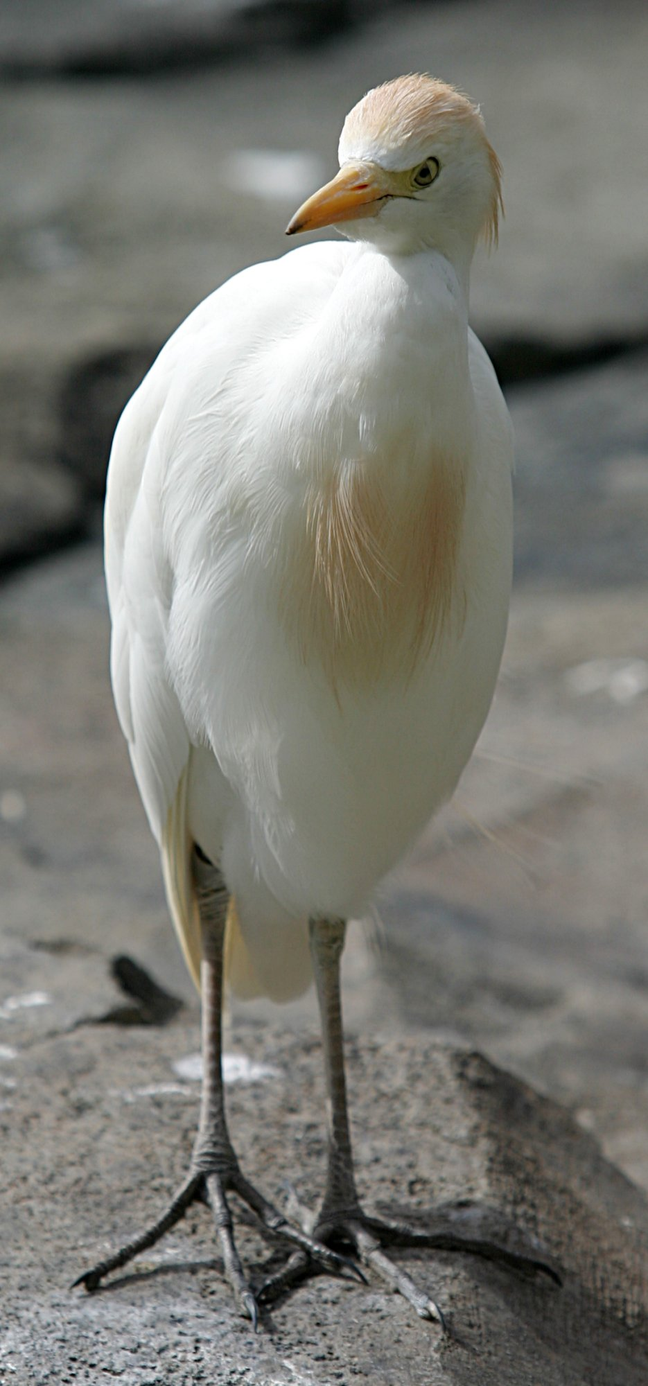 Cattle Egret at the Henry Doorly Zoo in Omaha, Nebraska.